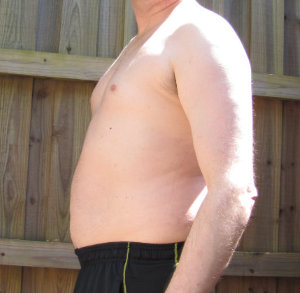 dadbod